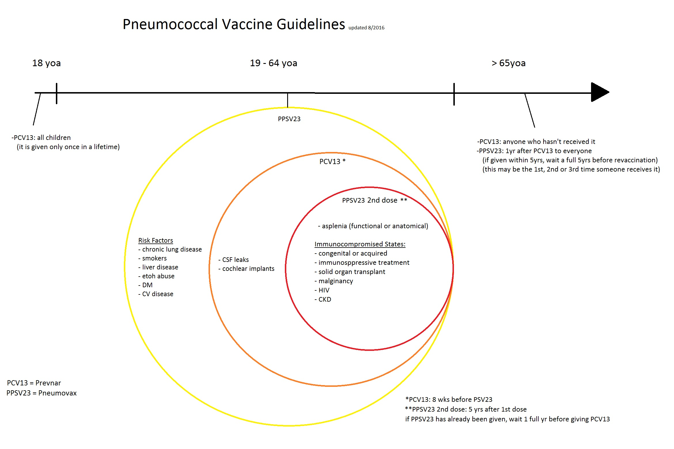 This diagram serves as a guide to current indications for the pneumococcal vaccines including Prevnar and Pneumovax.